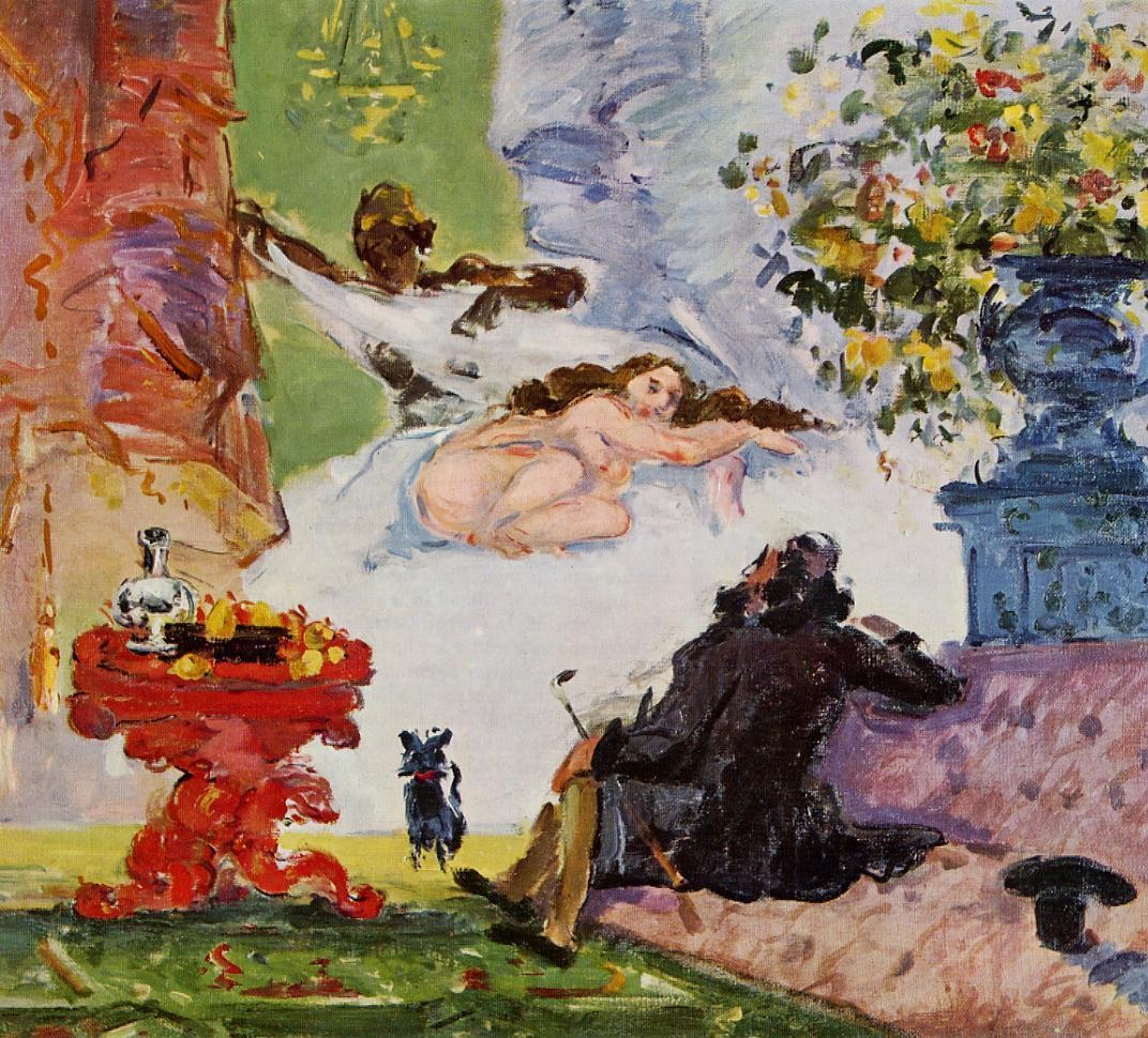 Une moderne Olympia